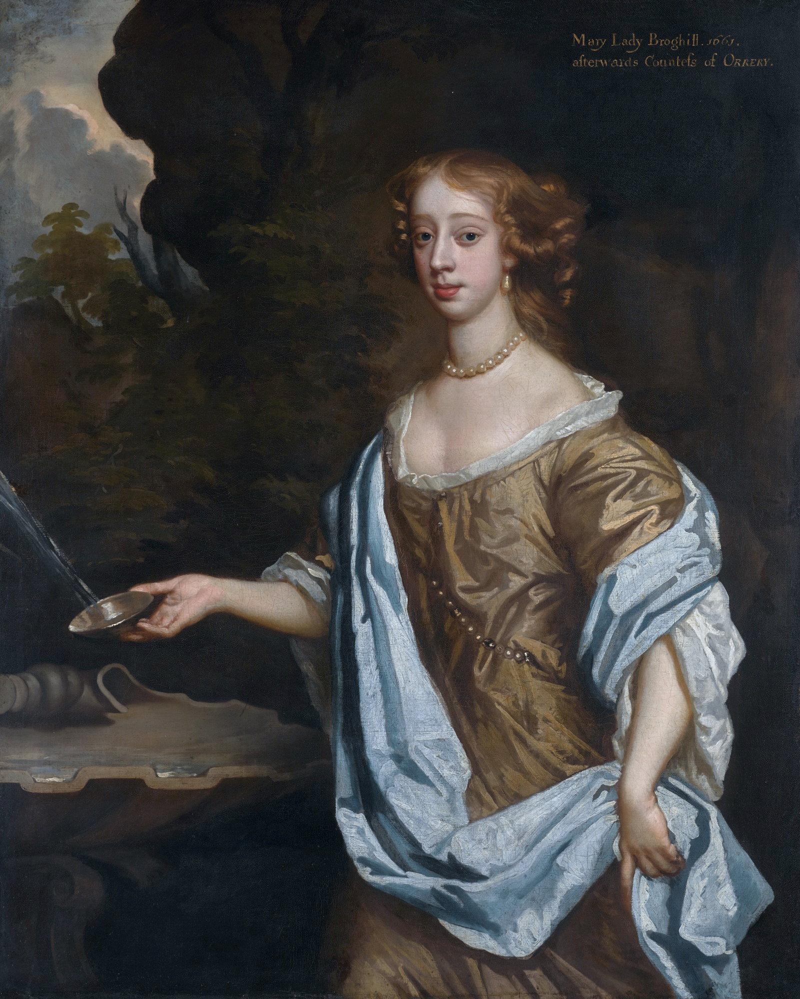 Mary, Countess of Orrery (1648-1710) oil on canvas 127.5 x 102 cm